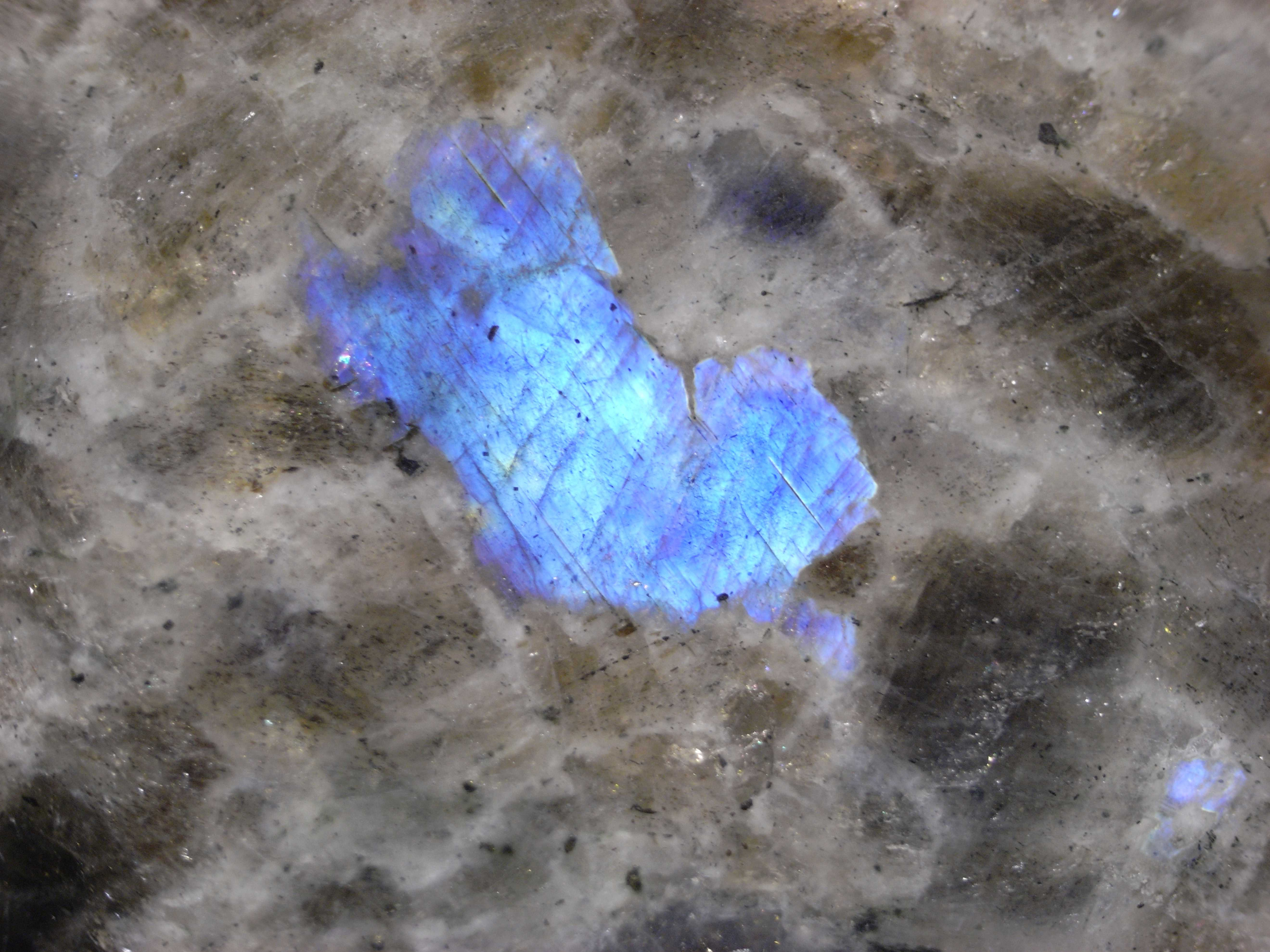 Anorthosite, decoration stone BLUE EYES (Paul Island, Labrador, Canada), size 25 x 20 mm